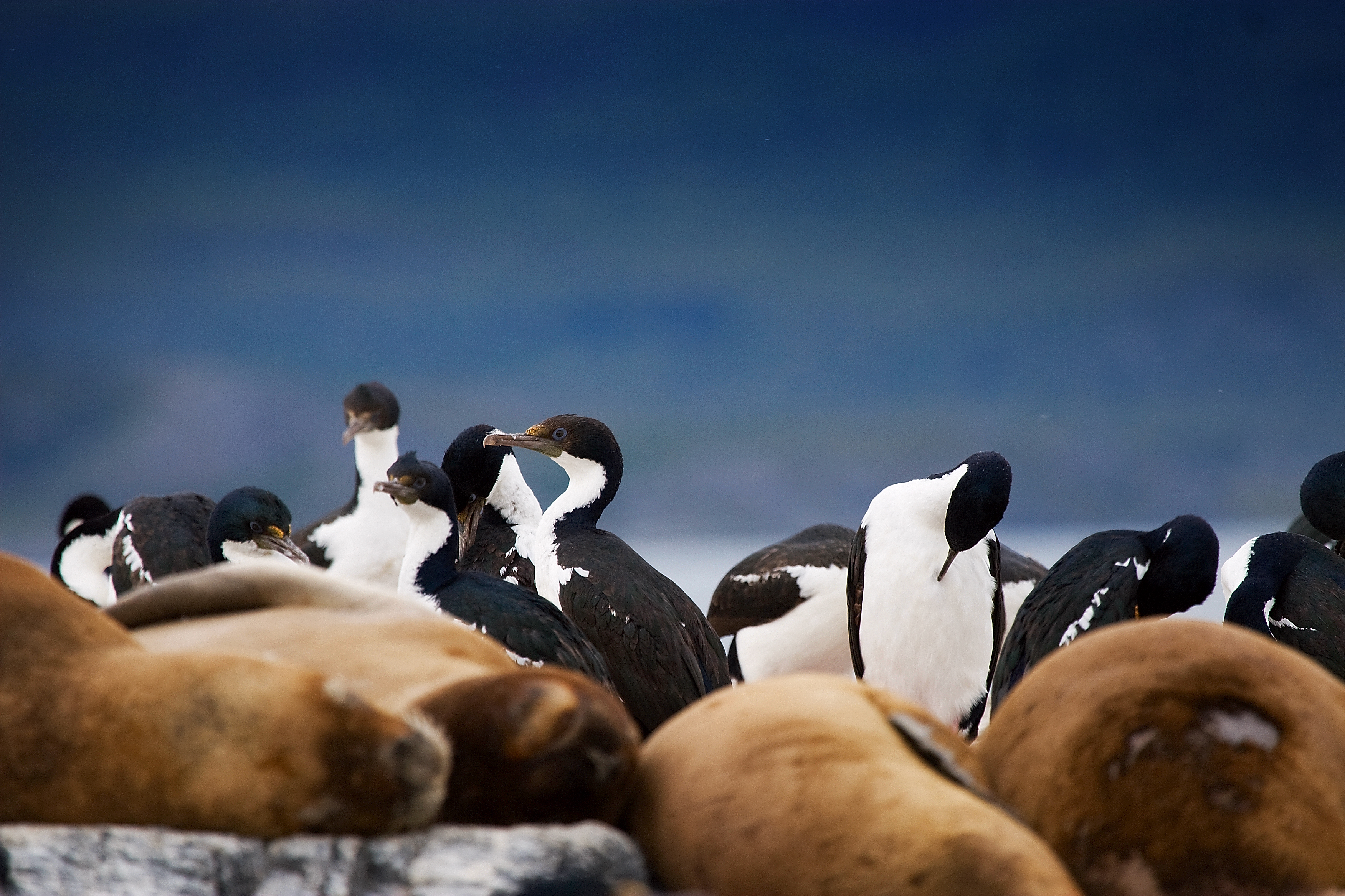 Imperial Shags (Phalacrocorax atriceps) Alicia Island